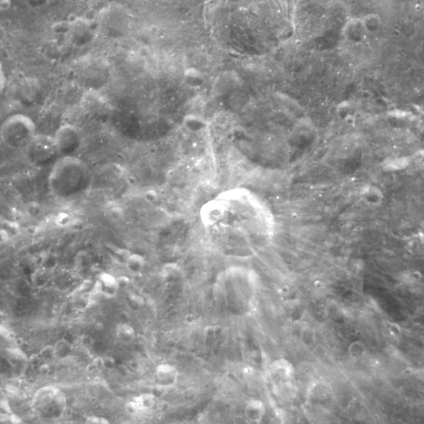 Wargo crater (center) and most of its ray system, on the far side of the moon. Clementine UV-Visible light mosaic, with brightness lowered and contrast enhanced.